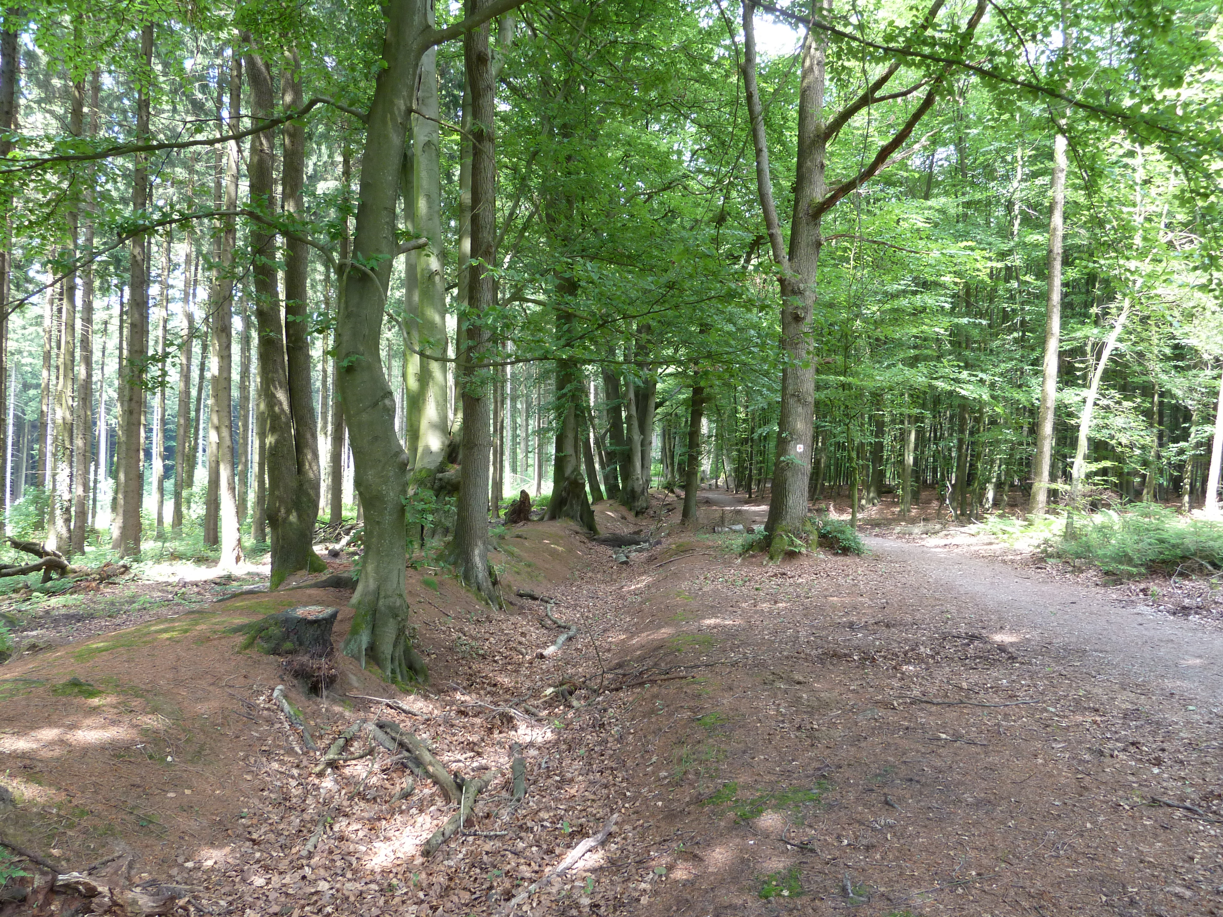 border near the Zyklopensteine, south of Aachen, Germany